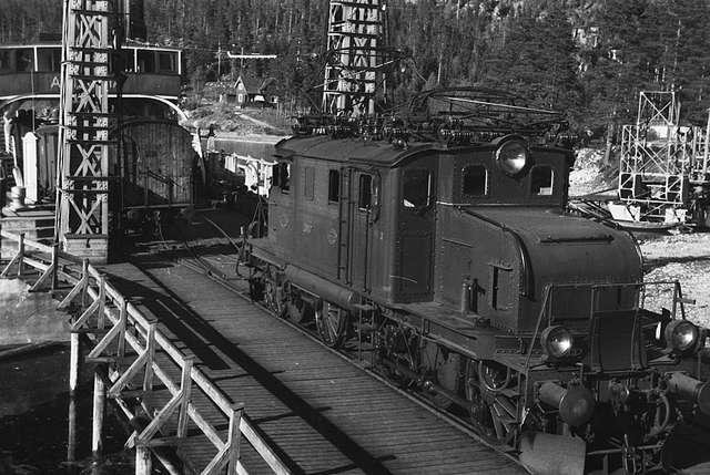 El 1.2007 locomotive and the Tinnsjå railway ferry, Norway.